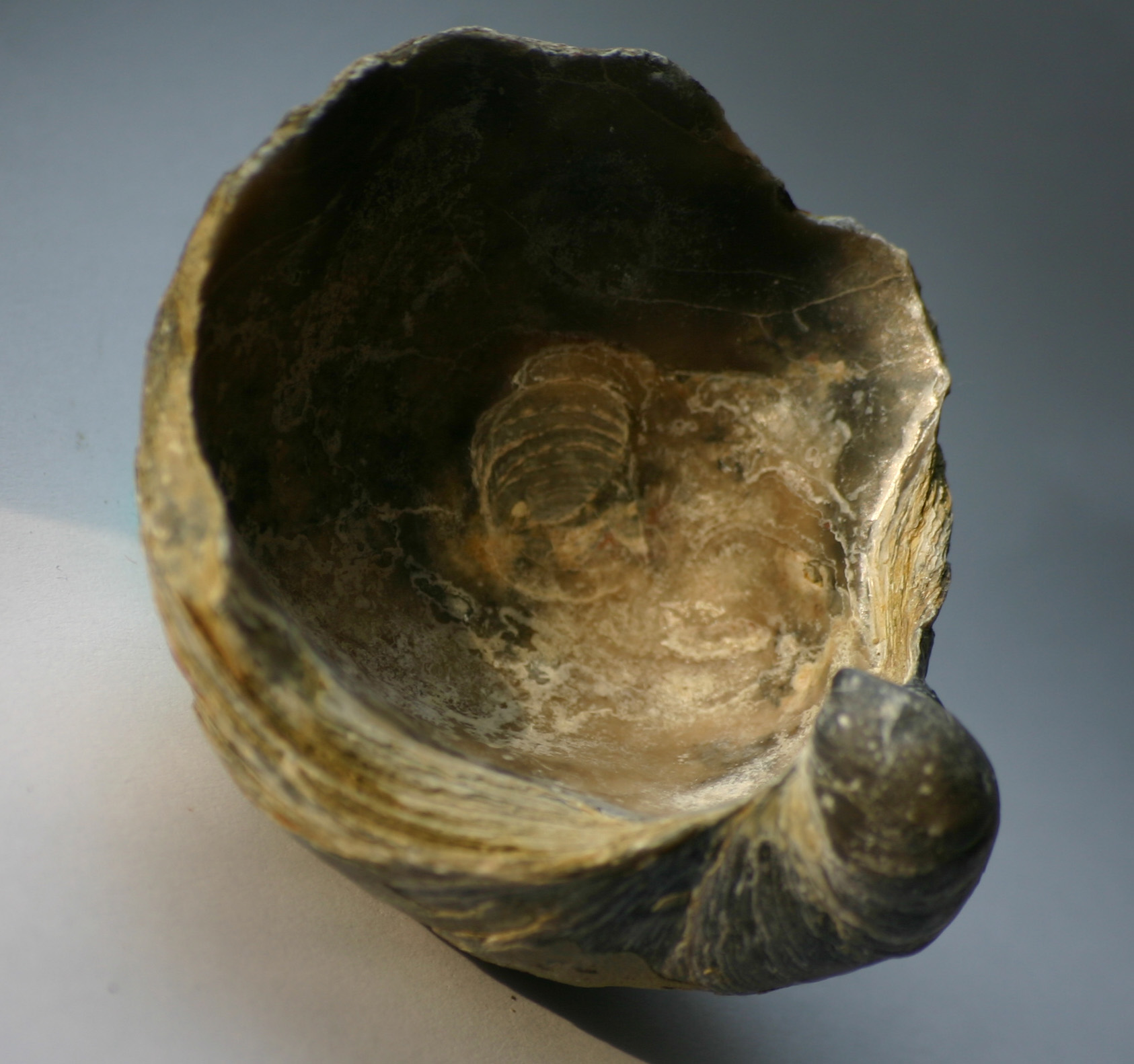 Fossil bivalve, an oyster called Gryphaea